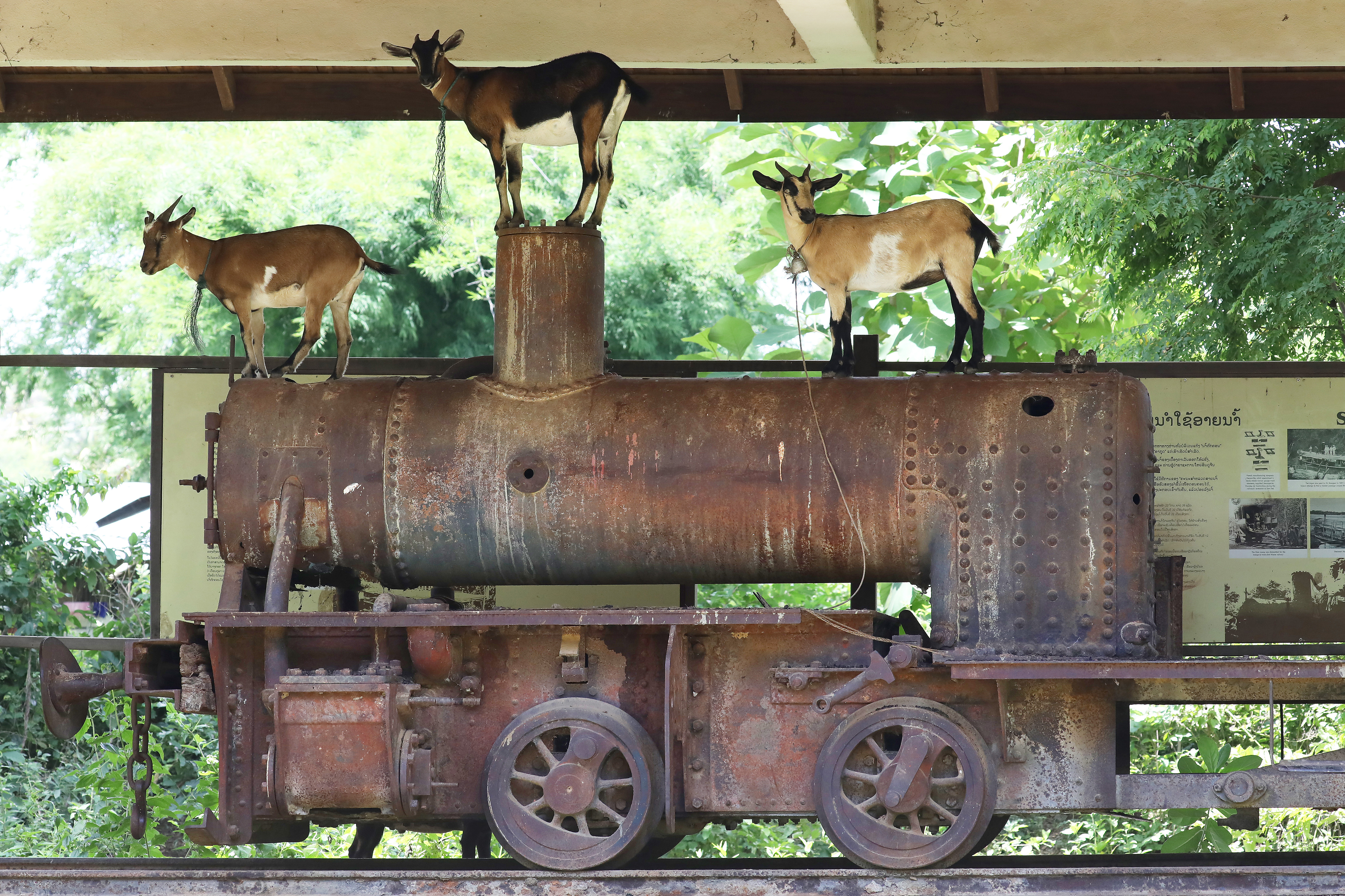 Standing on this rusty vehicle like 3 champions upon the steps of a podium, these goats seem to have elected that old good locomotive as their territory. Photo taken during a visit of Don Khon in the 4000 islands, Champassak province, Laos. In this country the captive animals are not enclosed and thus free to move in a large perimeter. The locomotive is a historic object from the ancient Don Det–Don Khon narrow-gauge railway and constitutes a touristic place in Si Phan Don.